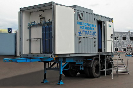 Mobile_oxygen_station